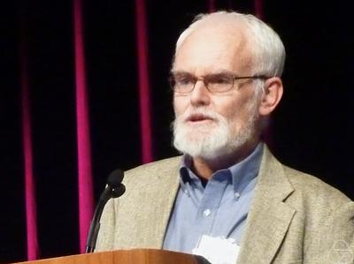 Photo of Philip Holmes